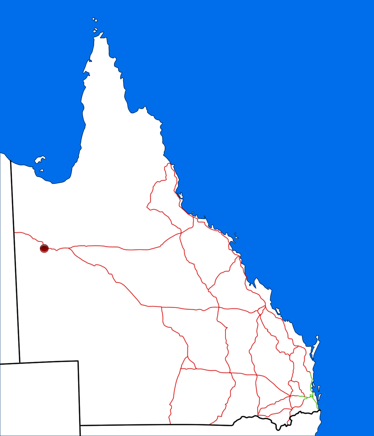 Queensland Map with Mount Isa marked.